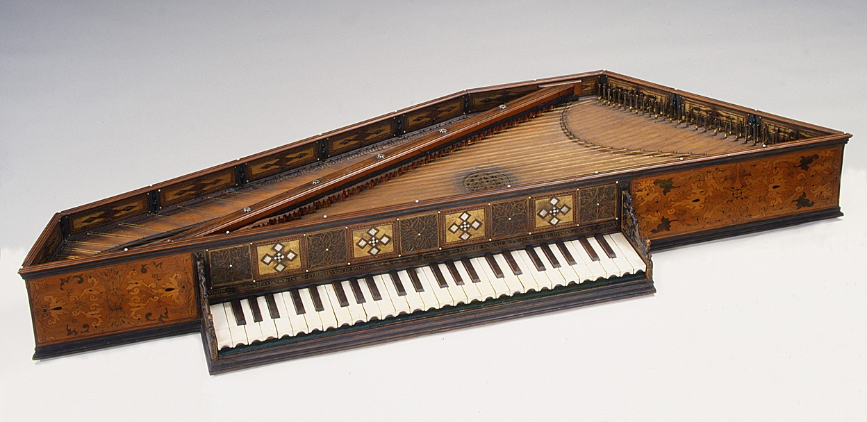 Italian; Spinet; Chordophone-Zither-plucked-virginal